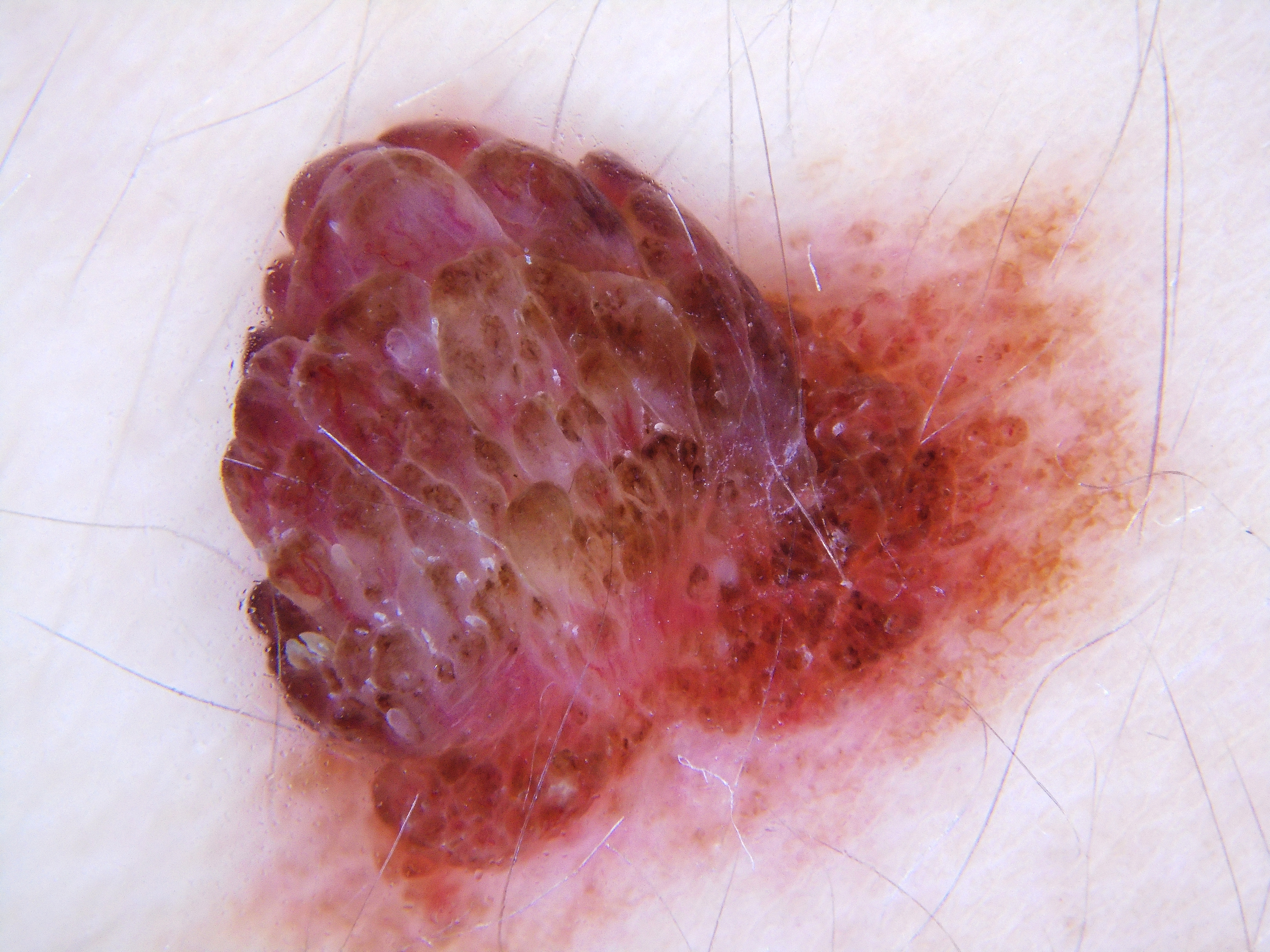 Dermatoscopic image of an intradermal melanocytic nevus. In lumbar region skin. Dimensions: 6 x 3 mm.